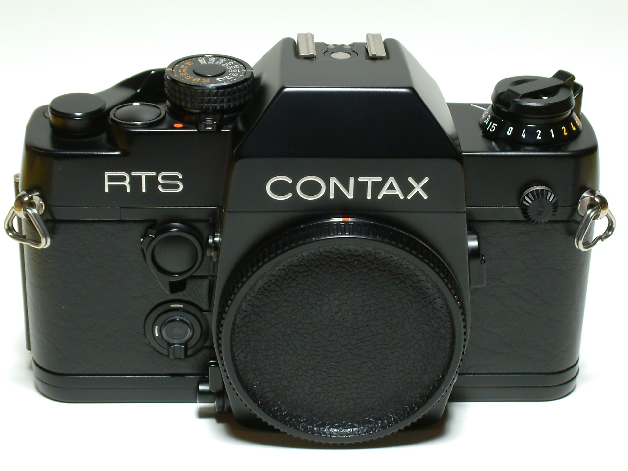 Contax RTS2 body